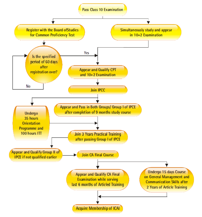 Flowchart about how to become an Indian Chartered Accountant